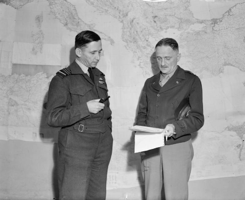 Royal Air Force Operations in the Middle East and North Africa, 1939-1943. Air Chief Marshal Sir Arthur Tedder, Commander-in-Chief, Mediterranean Air Command (left), in conference with Major General Carl Spaatz, Commander of the North-West African Air Forces, at Tedder's Headquarters in Algiers.